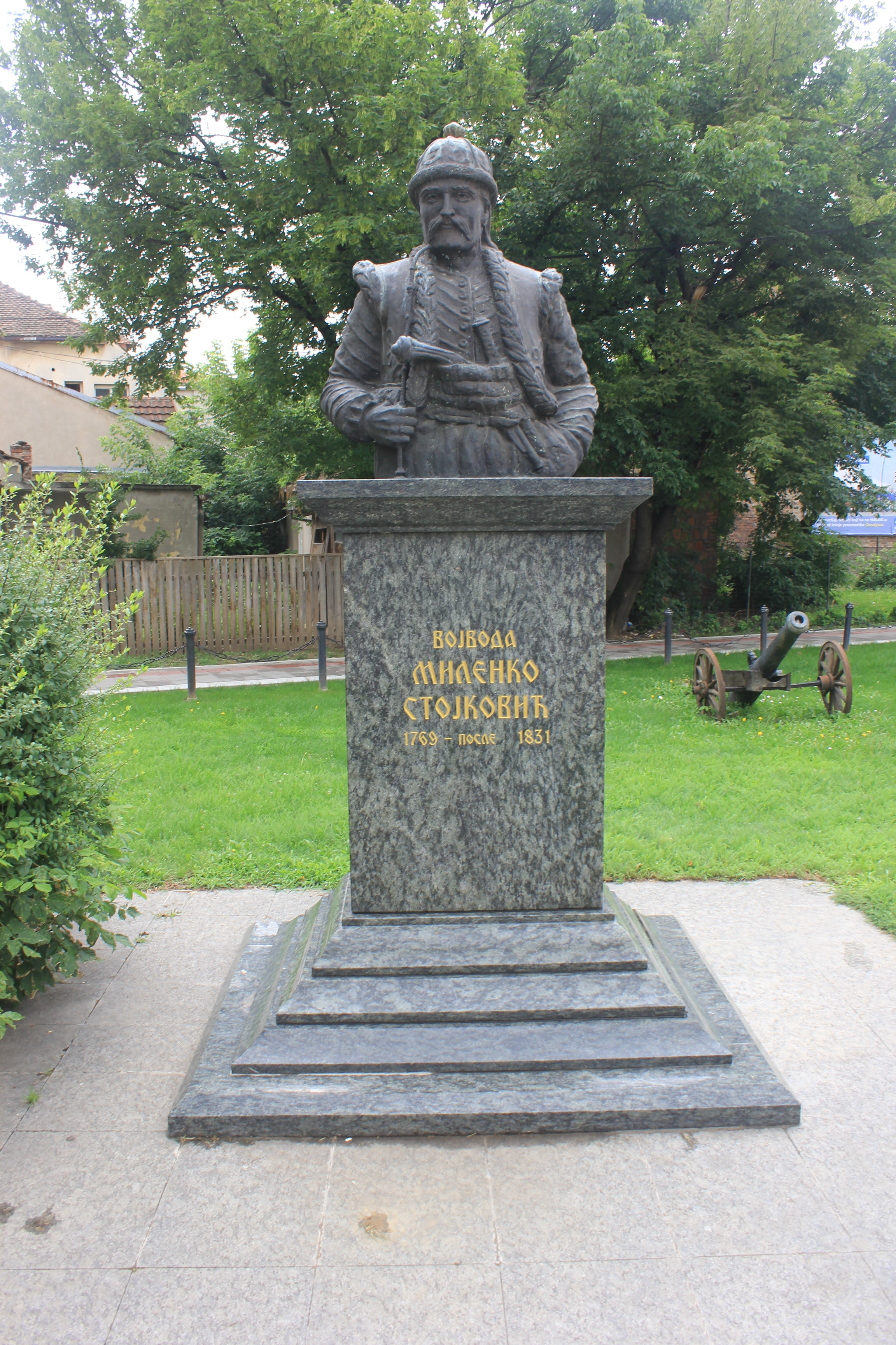 Monument to Milenko Stojković at Požarevac